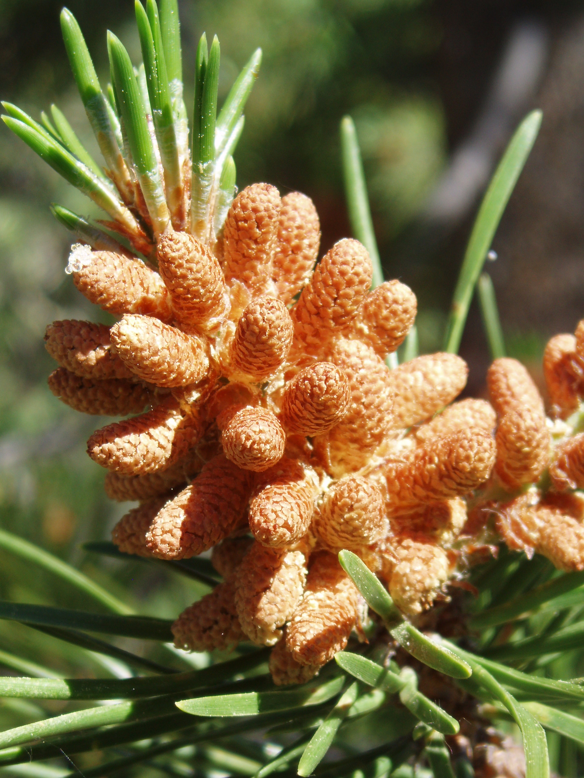 Pinus contorta subsp. murrayana — pollen cone. Lassen National Forest, Northern California. Photo: M. Simmonson, USFS.